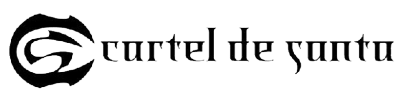 Official Cartel de Santa logo